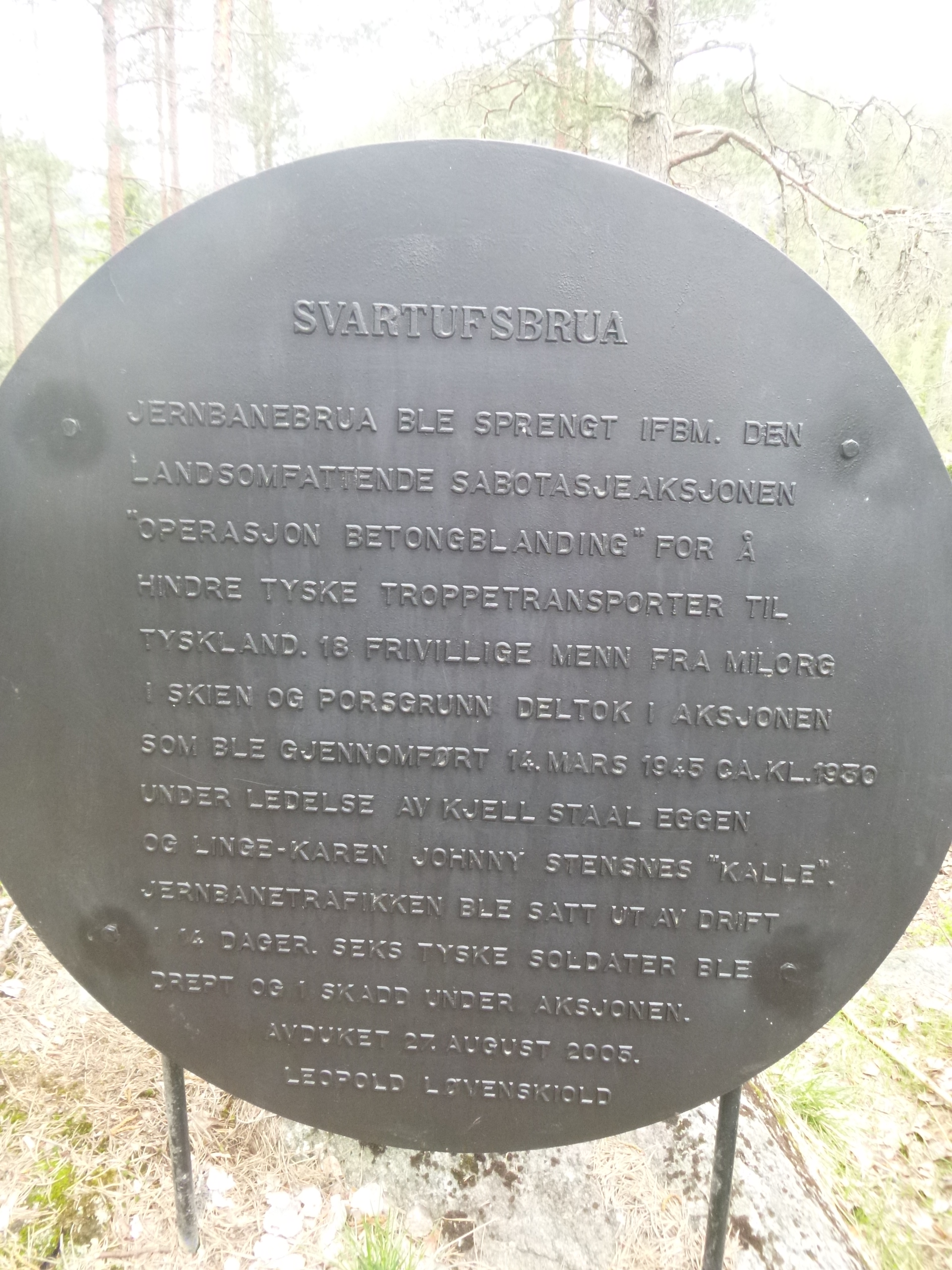 Svartufsbrua is a railway bridge on Bratsbergbanen (The Bratsberg line), at km 167,04. The bridge was blown up 14 March 1945, as an act of sabotage, as a part of "Operasjon Betongblanding". This memorial site was opened 27 August 2005.